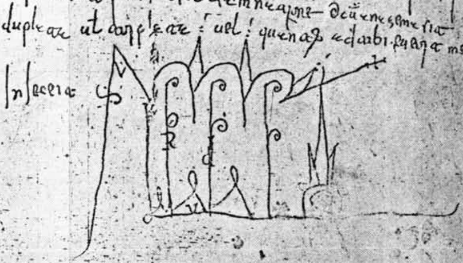 Signature of Vermudo III of León, from Luis Núñez Contreras. "Colección diplomática de Vermudo III, rey de León." Historia, instituciones, documentos 4 (1977): 381–514, fig. 1, from diploma no. 4, in which the king gave a certain Munio and his wife Gaudia some land near León in return for five years' service.